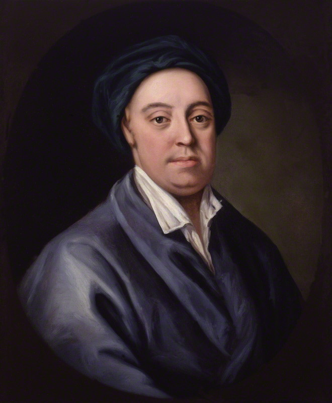 Scottish poet and dramatist James Thomson (1700-1748), author of ode Rule, Britannia!